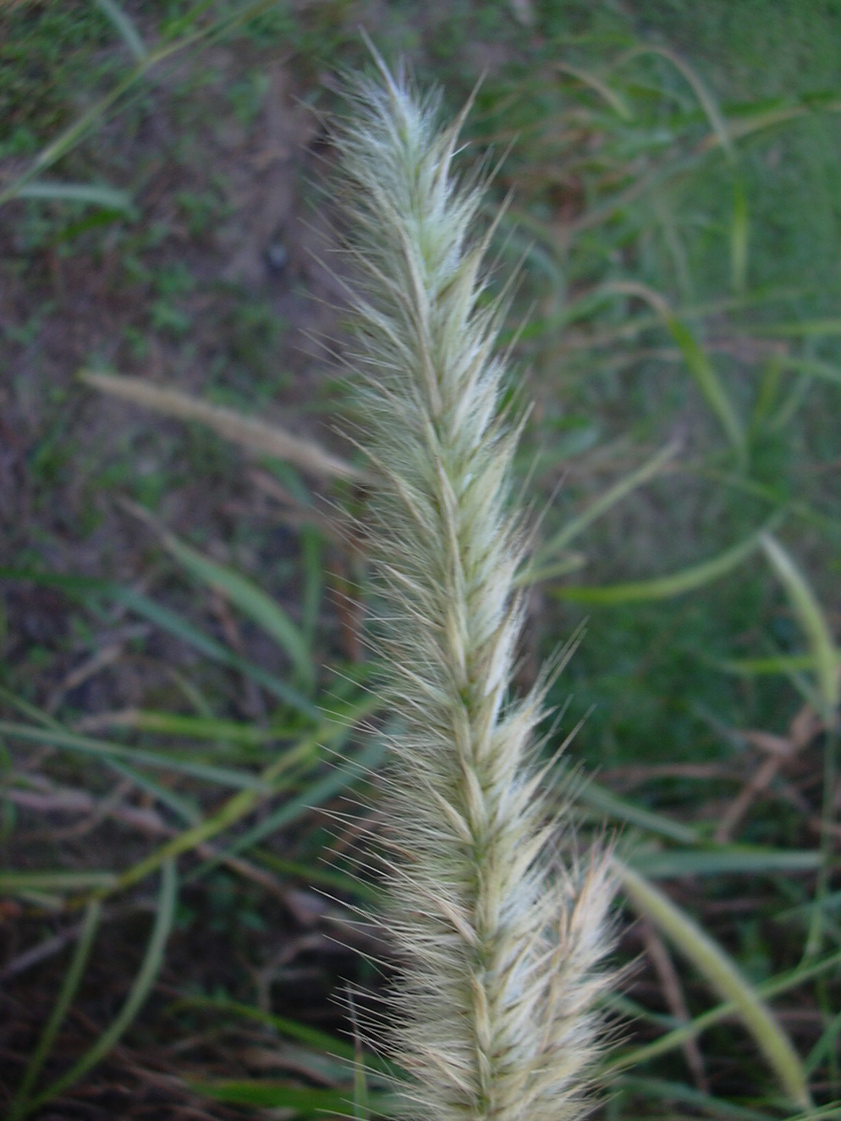 Pennisetum purpureum (seed head). Location: Florida, Tree Top Park